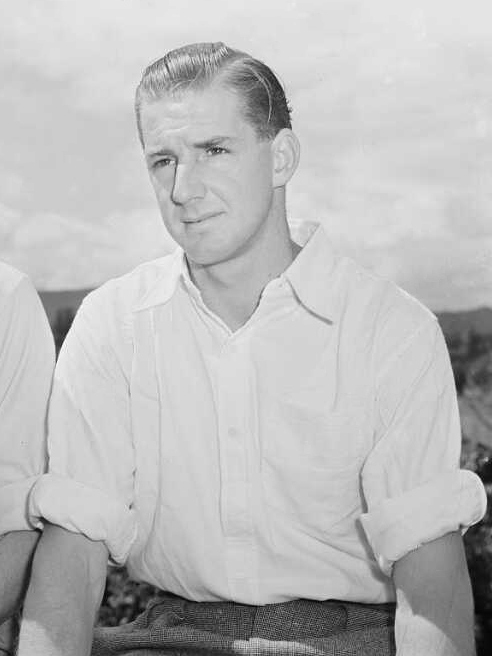 Members of the Australian Cricket Team, Driver and Ridings, photographed in 1950 by an Evening Post photographer.